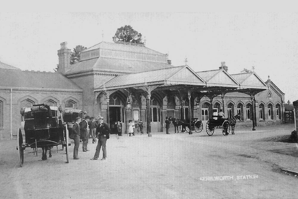 Kenilworth railway station